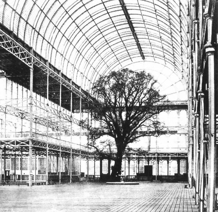 A tree in the Crystal Palace during the first Great Exibition 1851